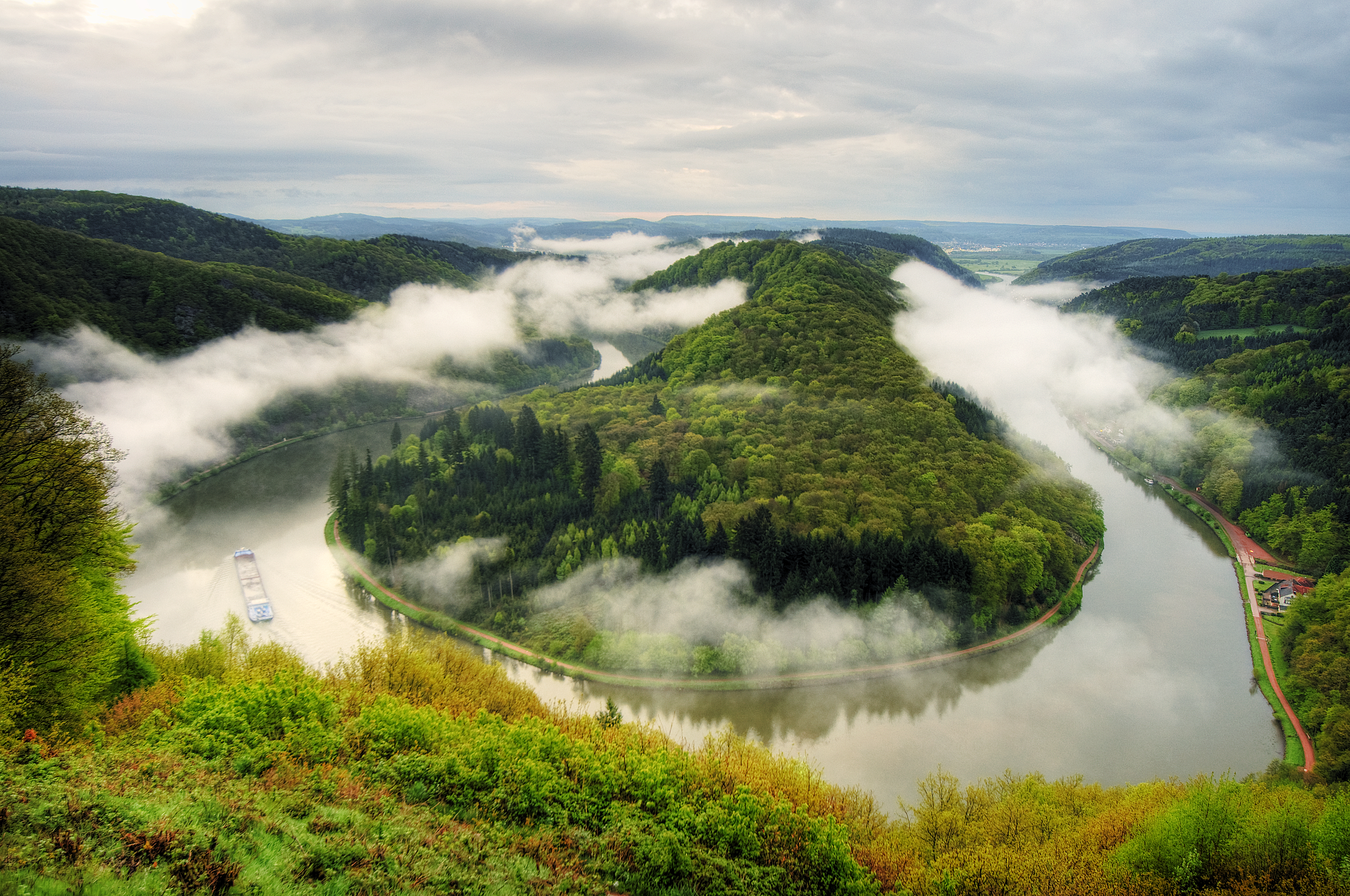 View from Mount Cloef to the Saar river (Germany).